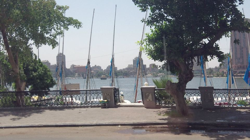 This is the dock in front of the four seasons to take a felucca